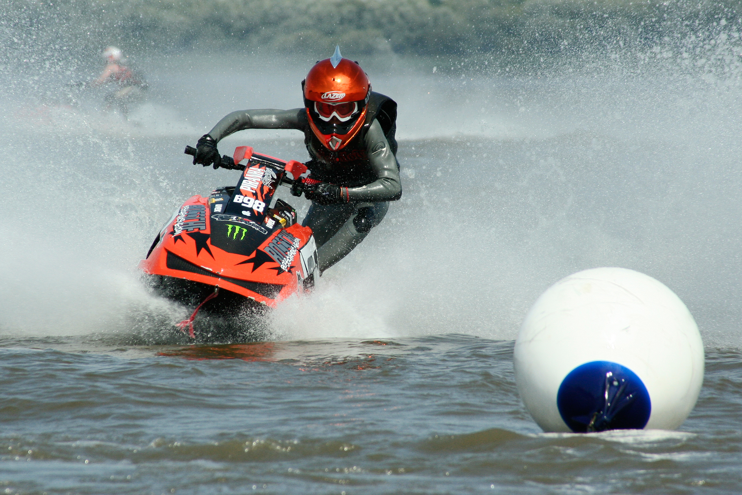 Racing scene at the German Championship 2007 in jetski-race on the Elbe, Krautsand.